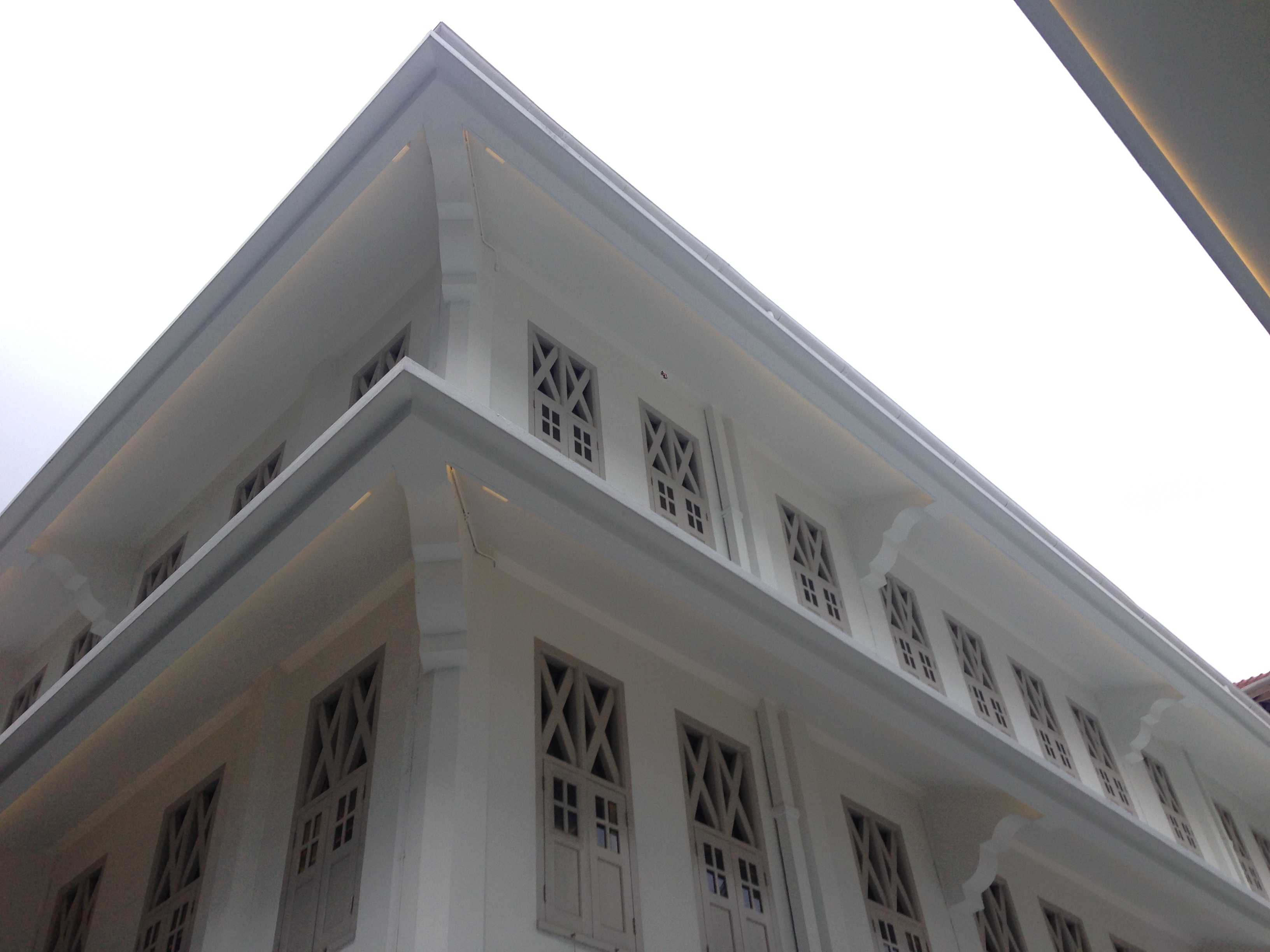 The National Design Centre which occupies the former Saint Anthony's Convent at 111 Middle Road, Singapore, seen from Queen Street.